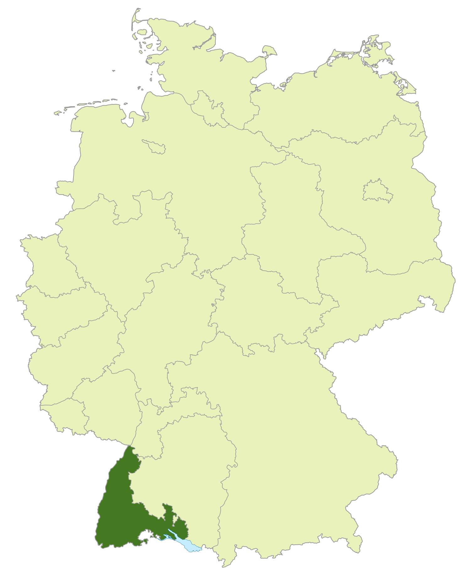 Map of regional soccer association Südbaden, Germany